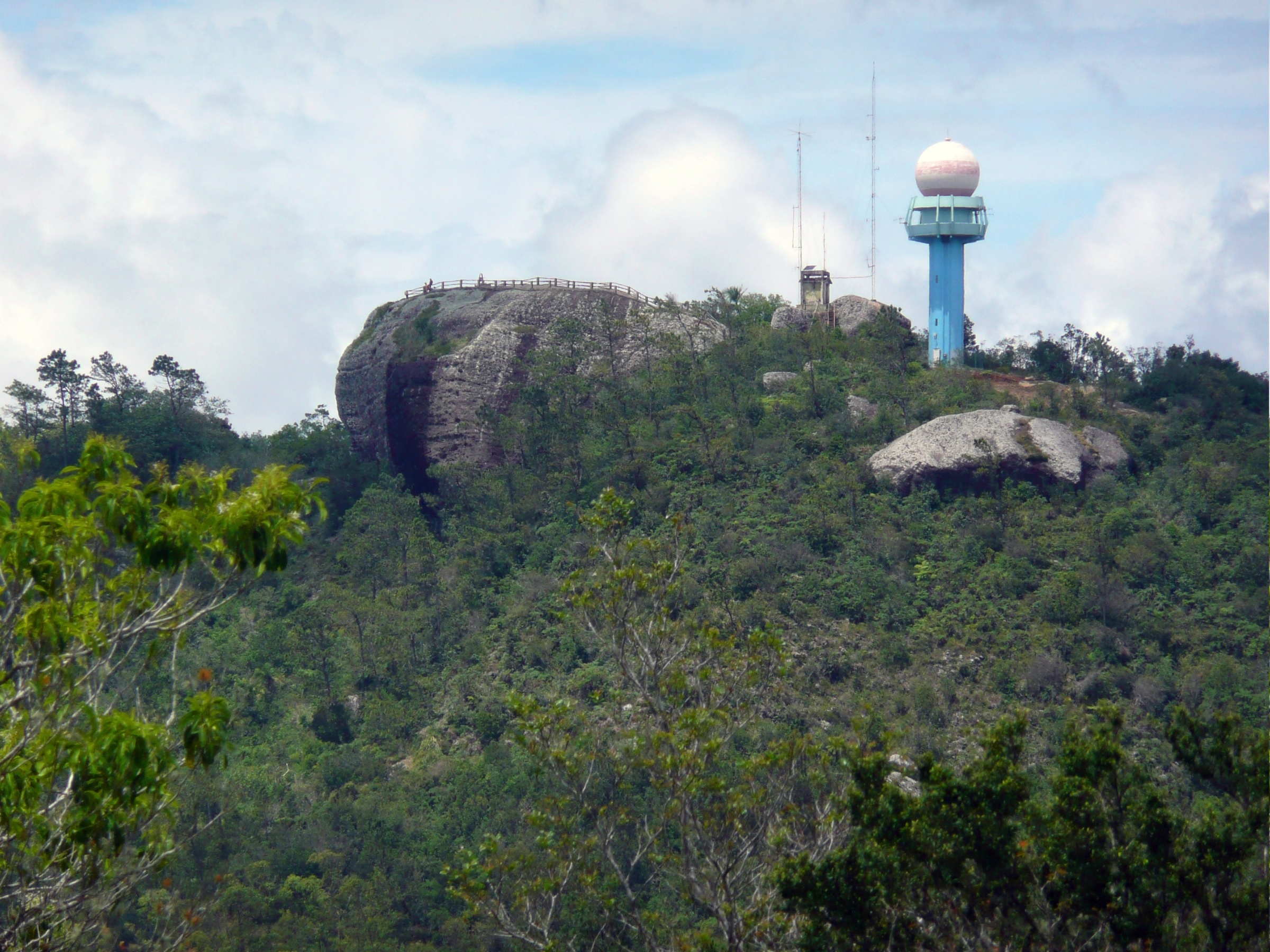 La Gran Piedra (Sierra Maestra, Santiago De Cuba, Cuba). Taken from Cafetal La Isabelica about 1km away.